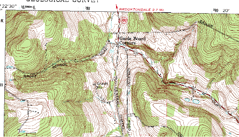 United States Geological Survey quadrangle depicting the area around Guide Board Corners, New York.